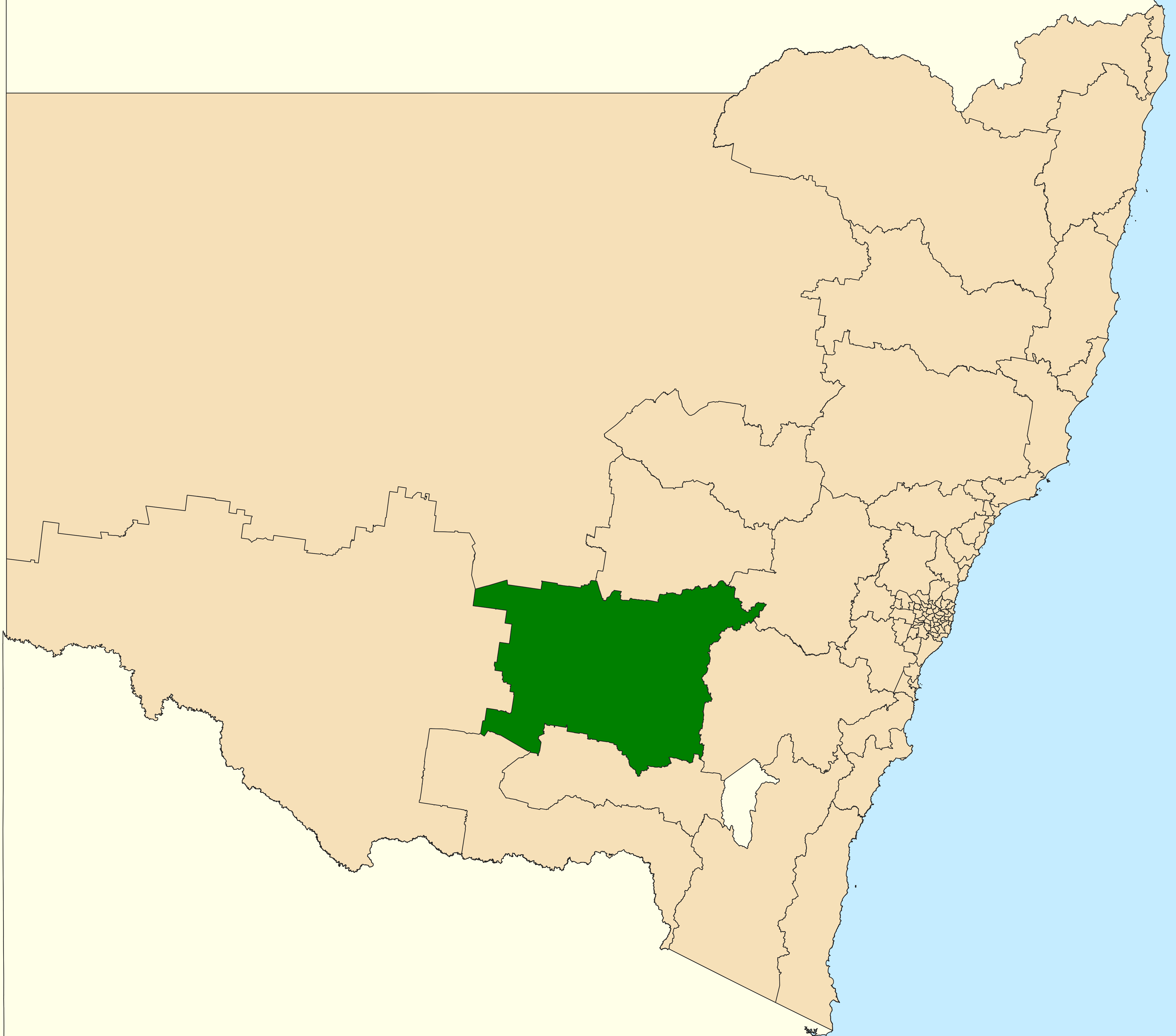 Location of the state electoral district of Cootamundra (dark green) in New South Wales as of the 2019 New South Wales state election. Incorporates or developed using Administrative Boundaries ©PSMA Australia Limited licensed by the Commonwealth of Australia under Creative Commons Attribution 4.0 International licence (CC BY 4.0).